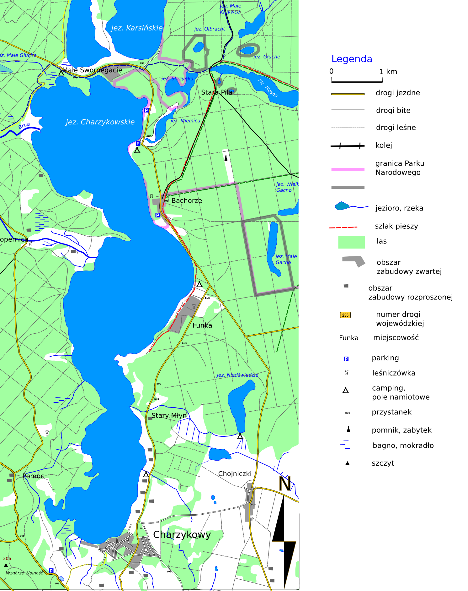 Charzykowy Lake